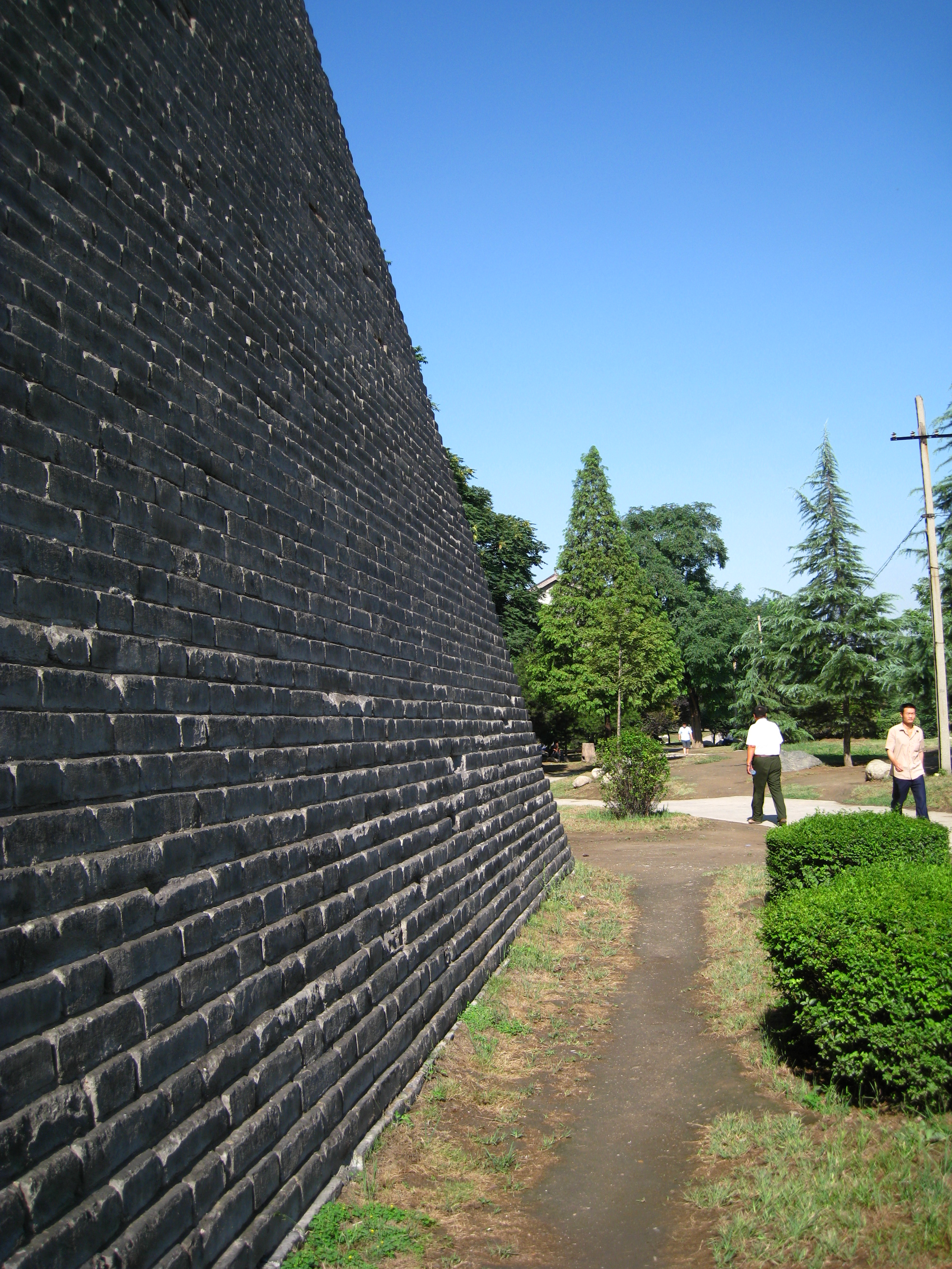 尚德门外城墙下 Blue bricks and blue sky